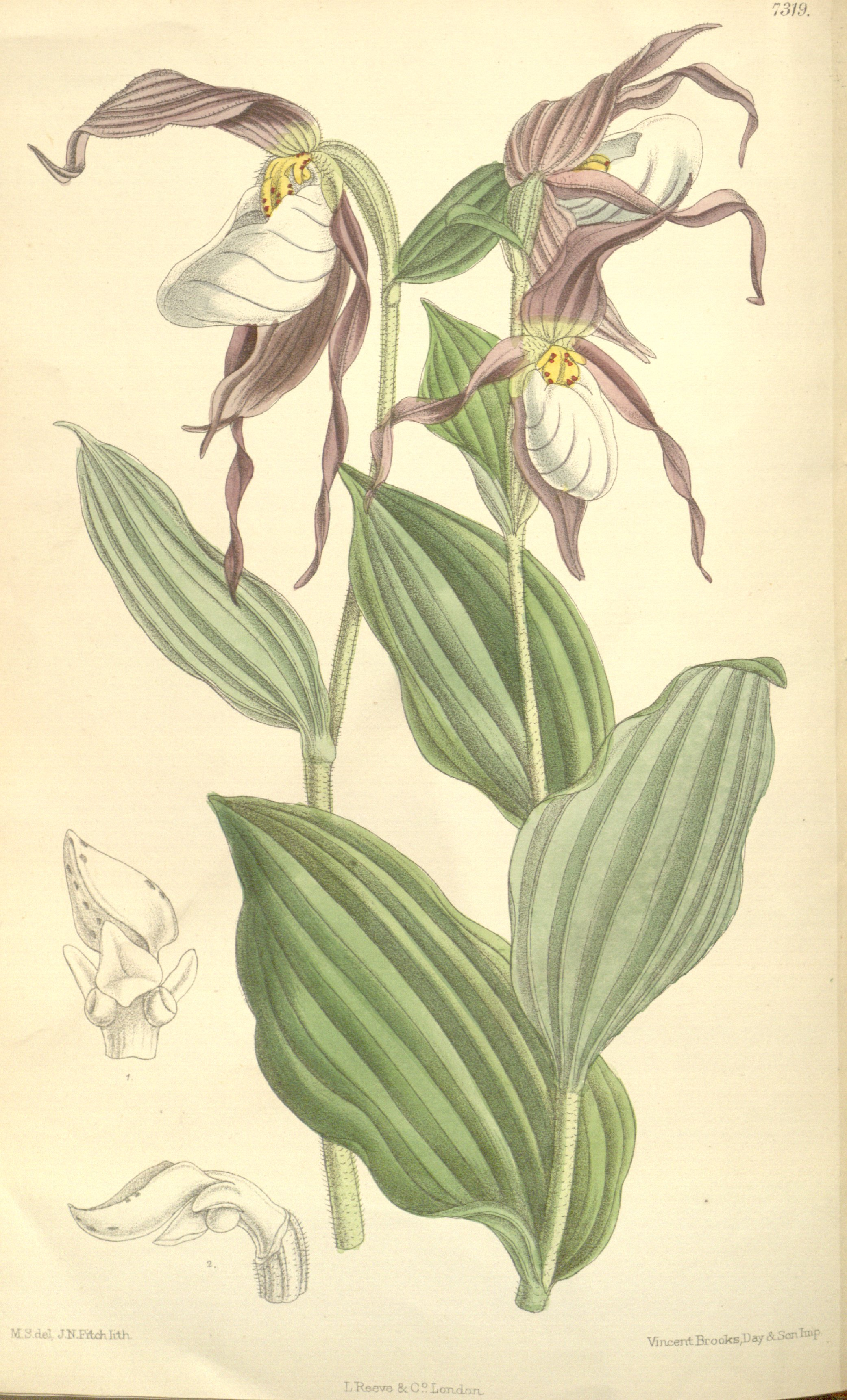 Illustration of Cypripedium montanum